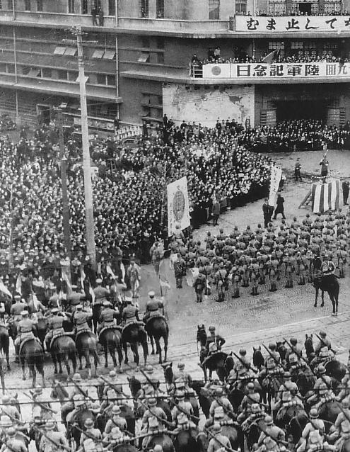 Imperial Japanese Army Commemoration Day in 1944